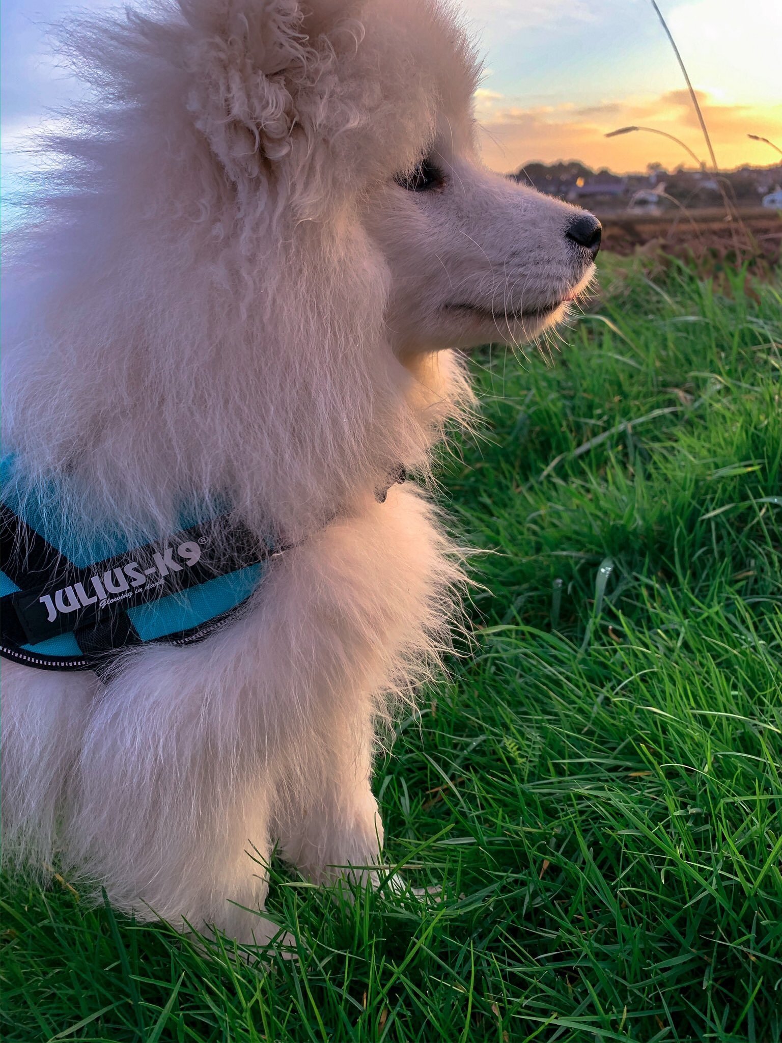 Puppy Samoyed.